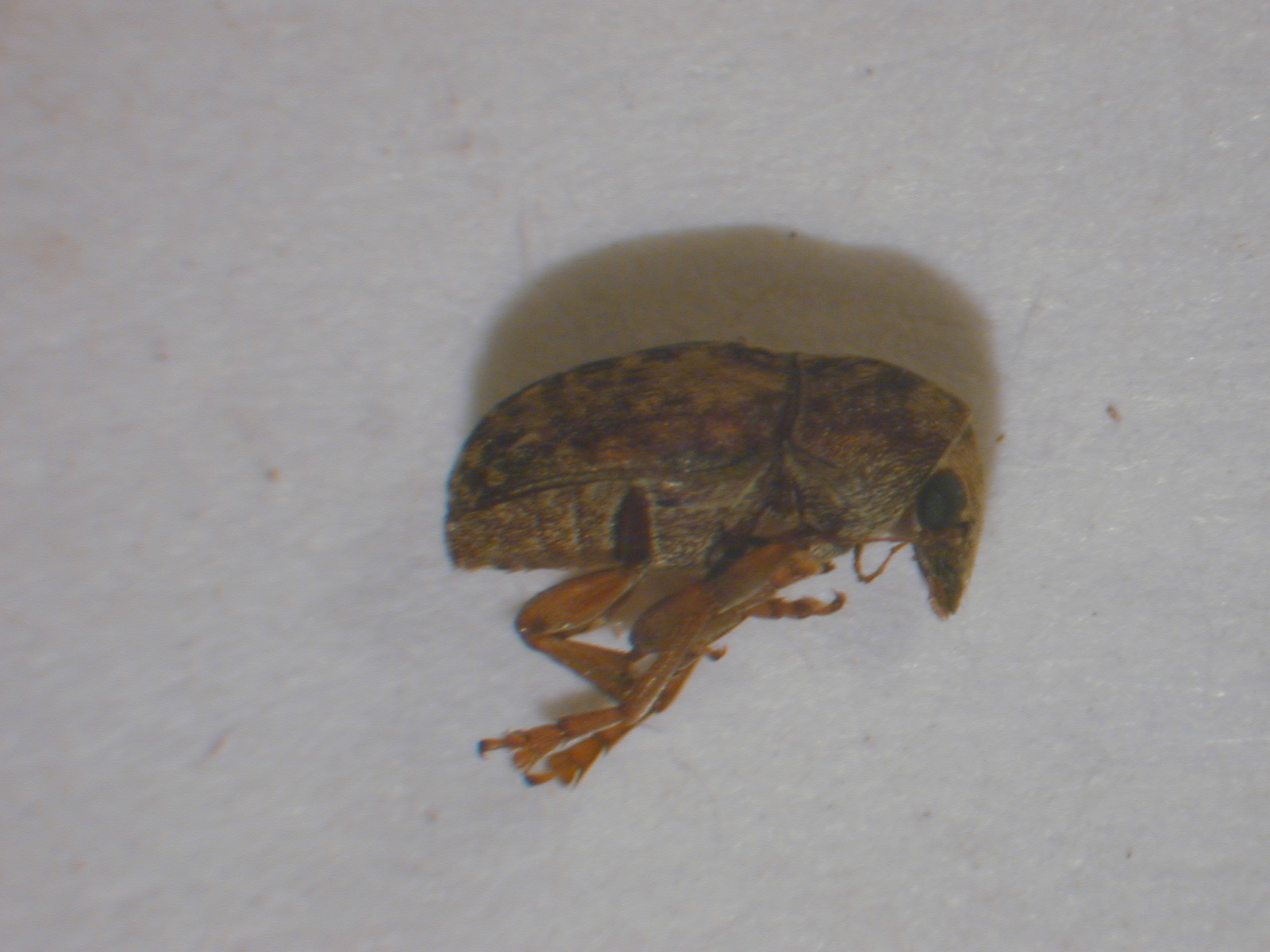 Acacia koaia (Bruchid spots 020518 6 Bruchidae Coleoptera ex seeds). Location: Maui, Puu o Kali